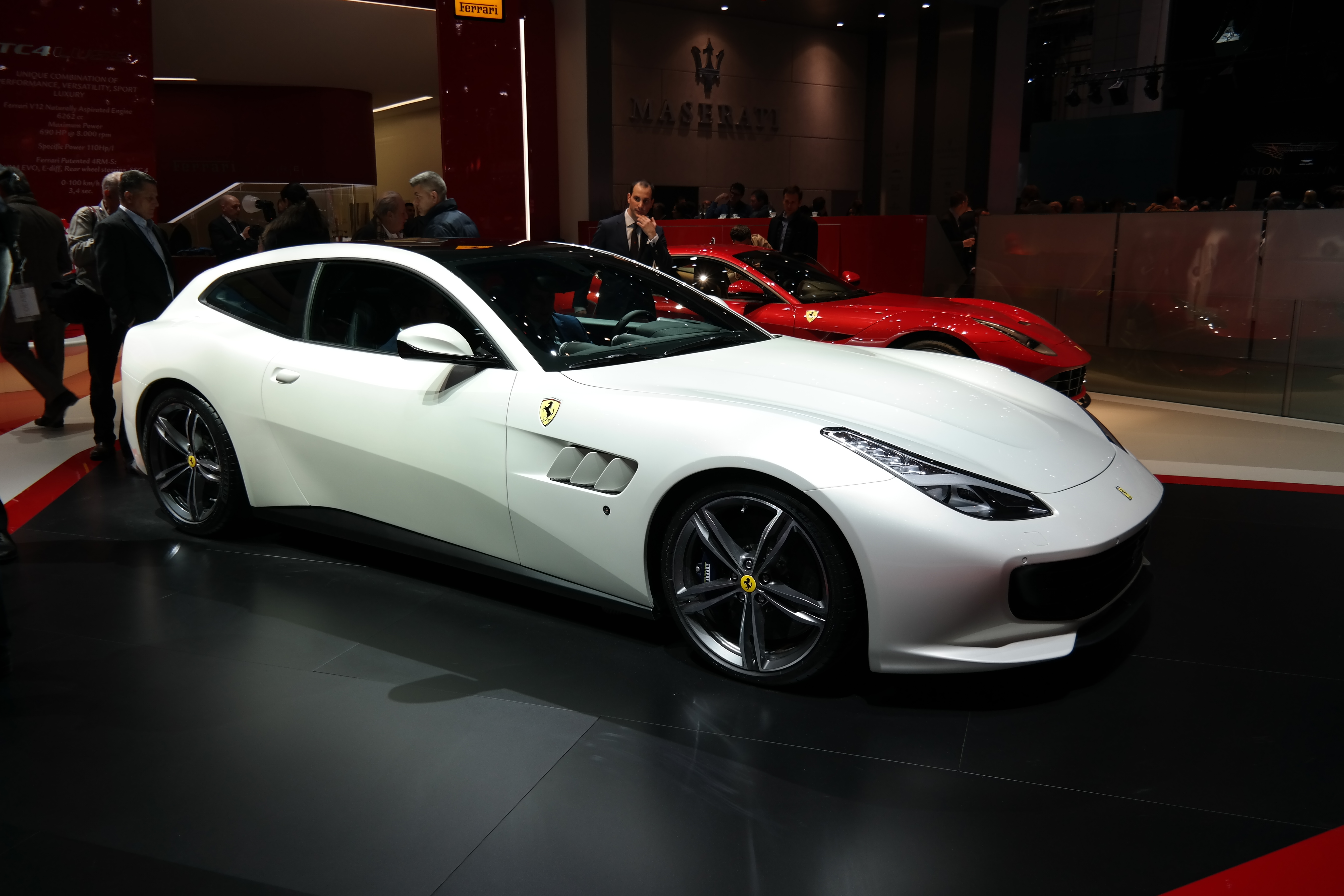 Geneva Motor Show 2016 (photo taken on the first press day)